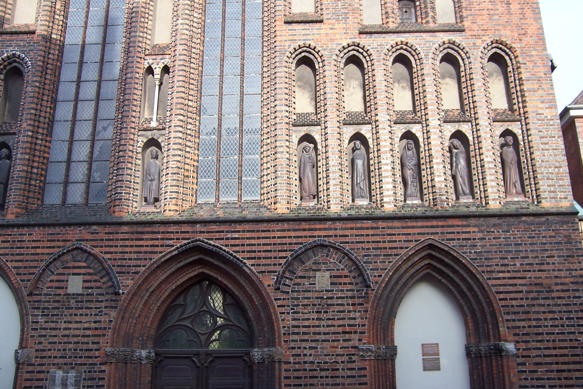 West facade of deKatharinenkirche (Lübeck) with statues by Gerhard Marcks; left to right: Christus als Schmerzensmann (Christ as man of sorrows), Brandstifter (arsonist), Jungfrau (virgin), Mutter und Kind (mother and child), Kassandra and Prophet.